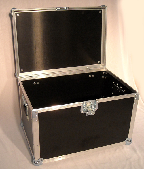 FlightCase